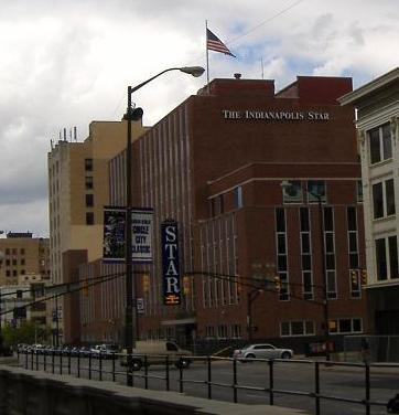 Picture of The Indianapolis Star building, in Indianapolis, Indiana